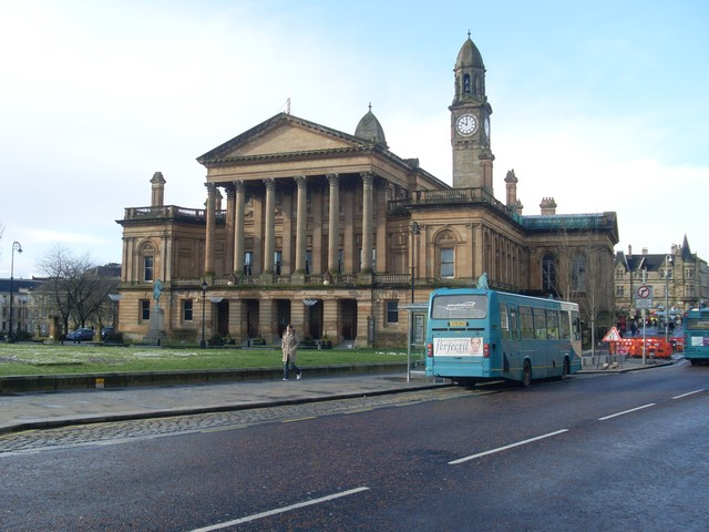 Paisley Town Hall Overlooking Abbey Close.